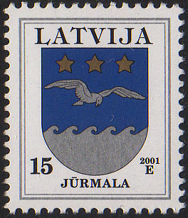 Latvian postage stamp definitive depicting the Jūrmala town coat of arms.